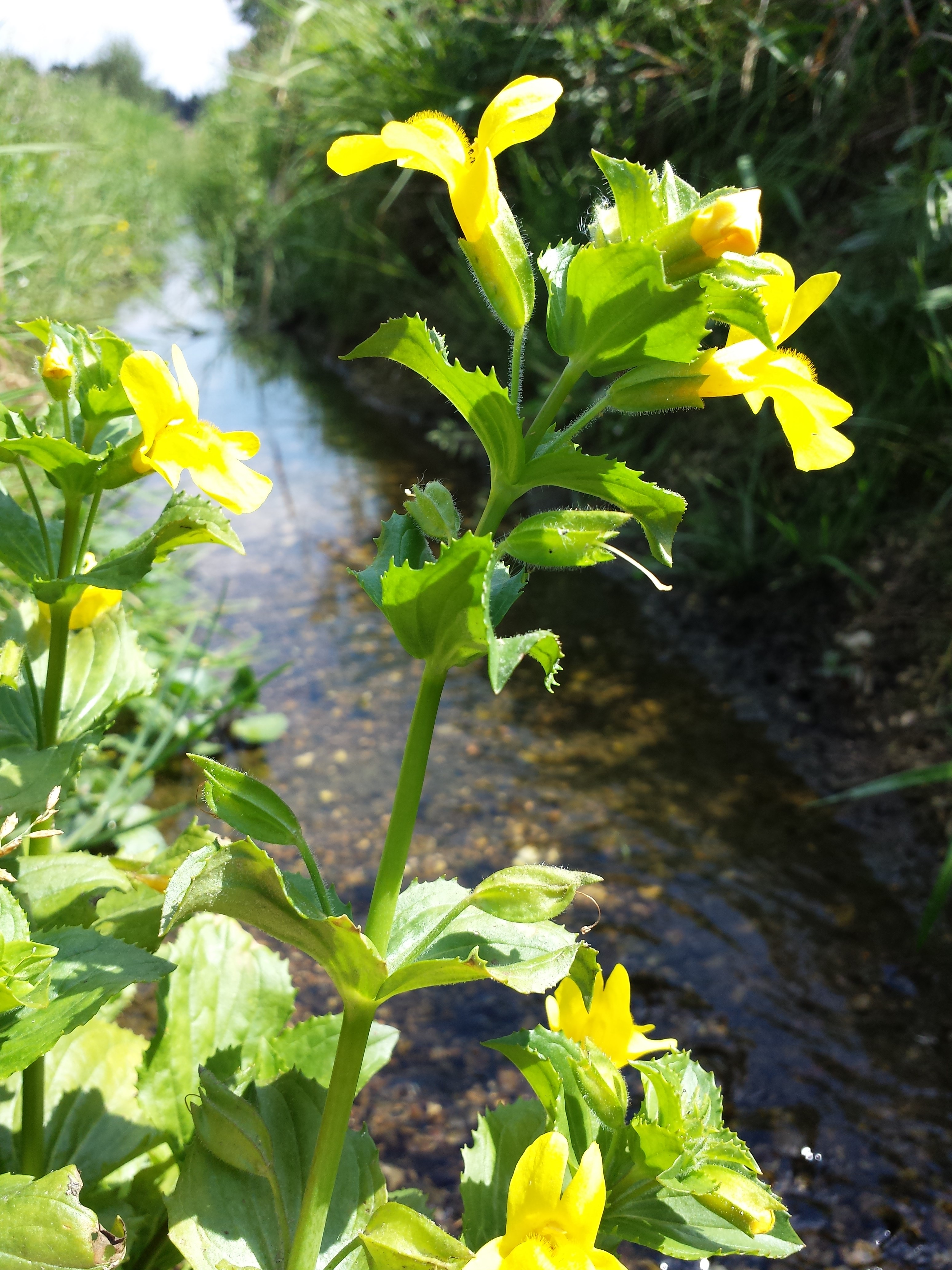 Inflorescence Taxonym: Mimulus guttatus ss Fischer et al. EfÖLS 2008 ISBN 978-3-85474-187-9 Location: Arbesbach, Groß-Gerungs, district Zwettl, Lower Austria - ca. 830 m a.s.l. Habitat: shore of a stream